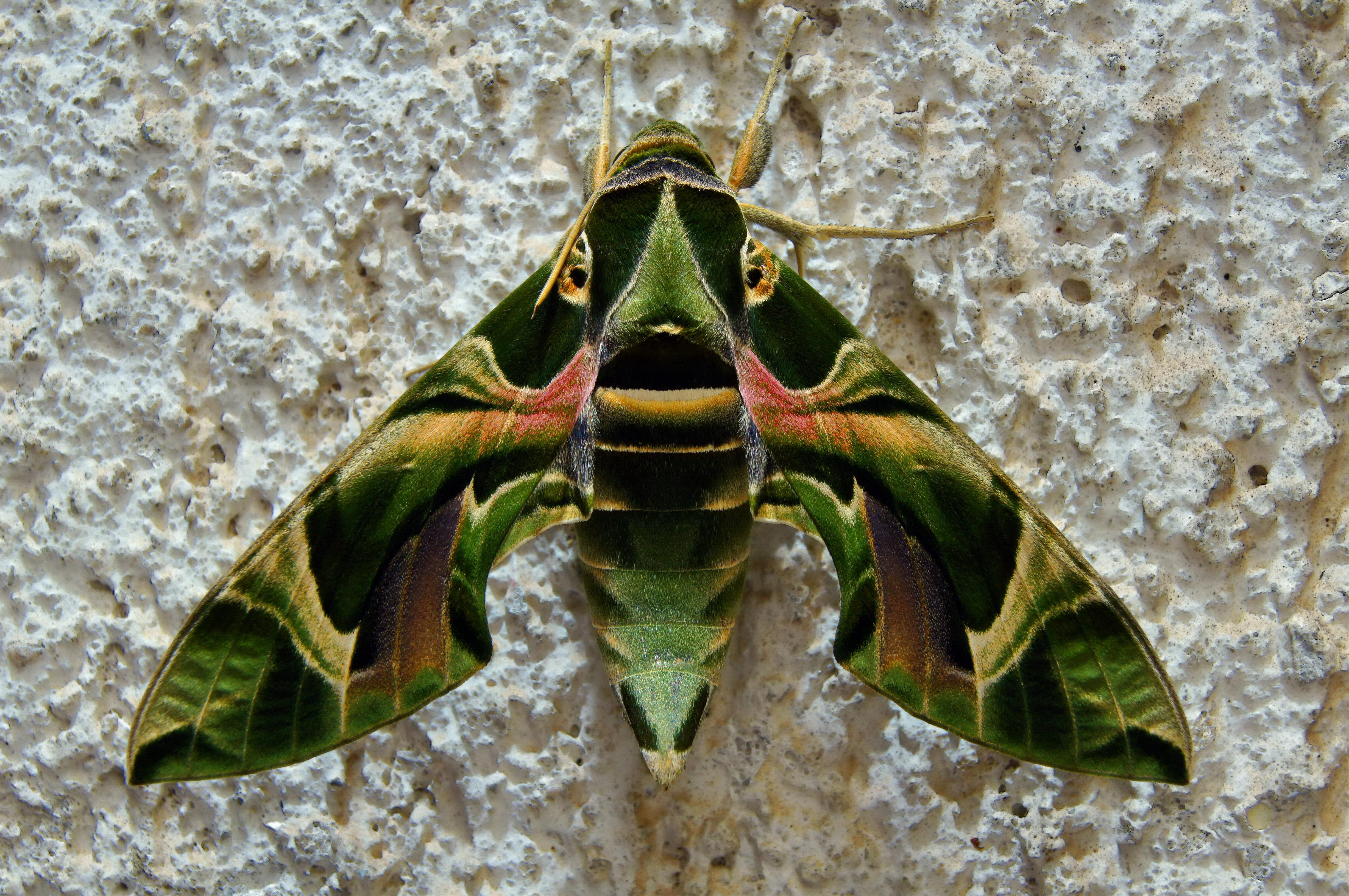 Daphnis nerii L, SPHINGIDAE; N 43°30', E 16°26' (Split, Croatia); 2014-09-18, CEST 23h32m